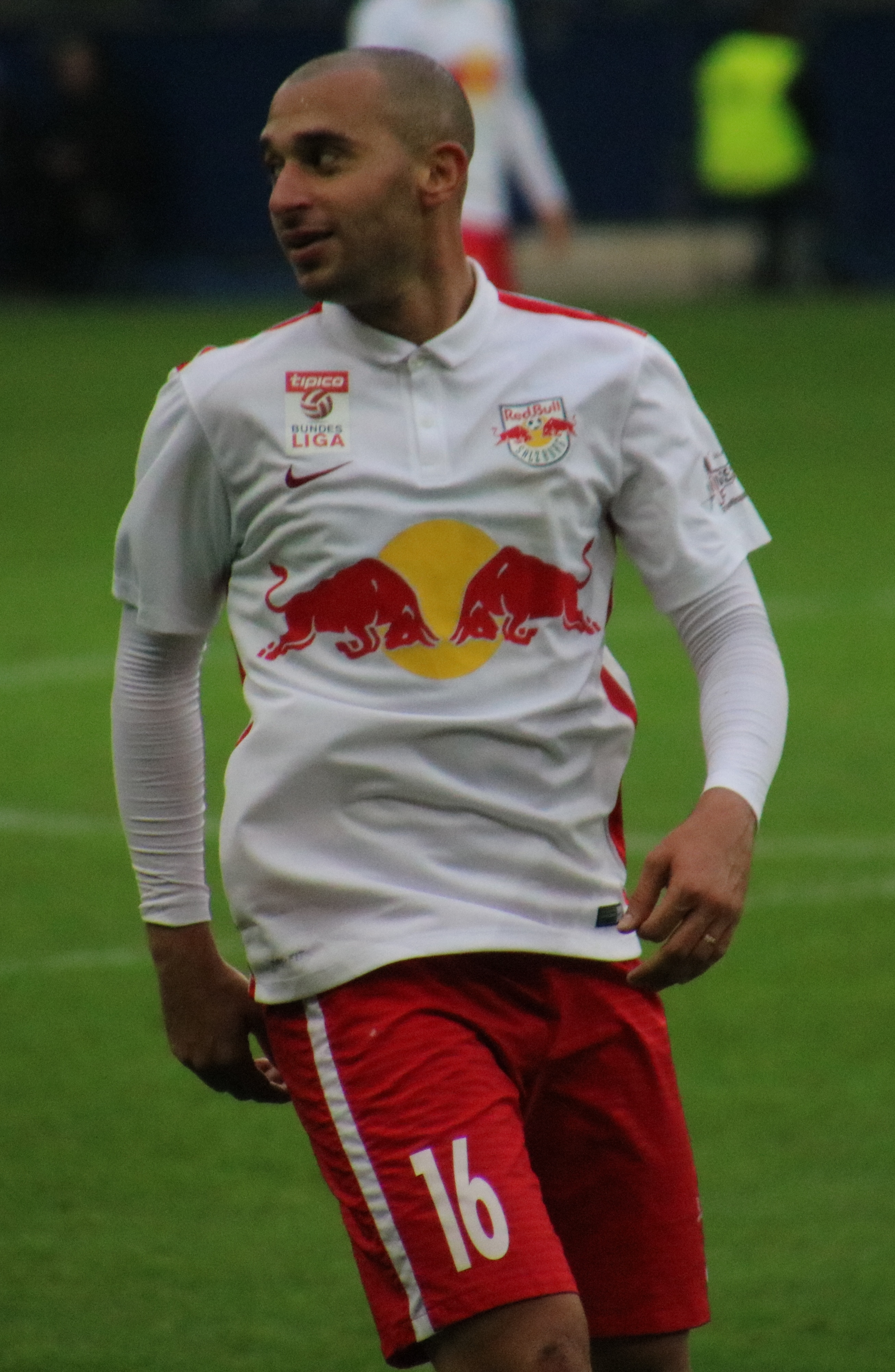 league match Austrian Bundesliga